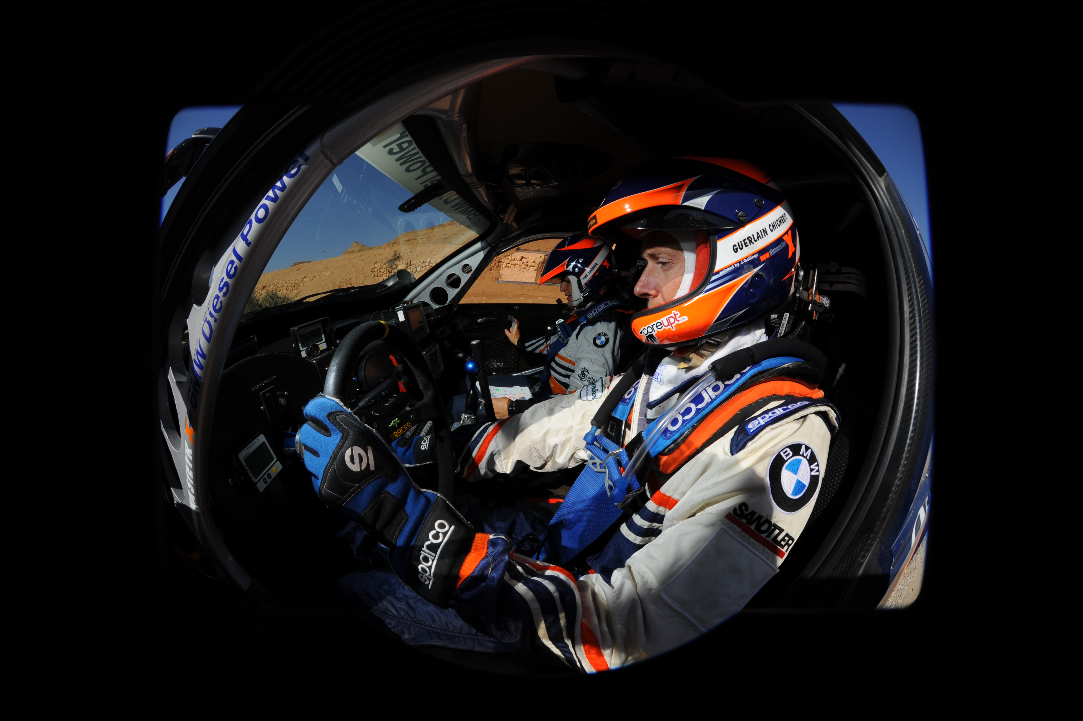 Guerlain Chicherit Cockpit